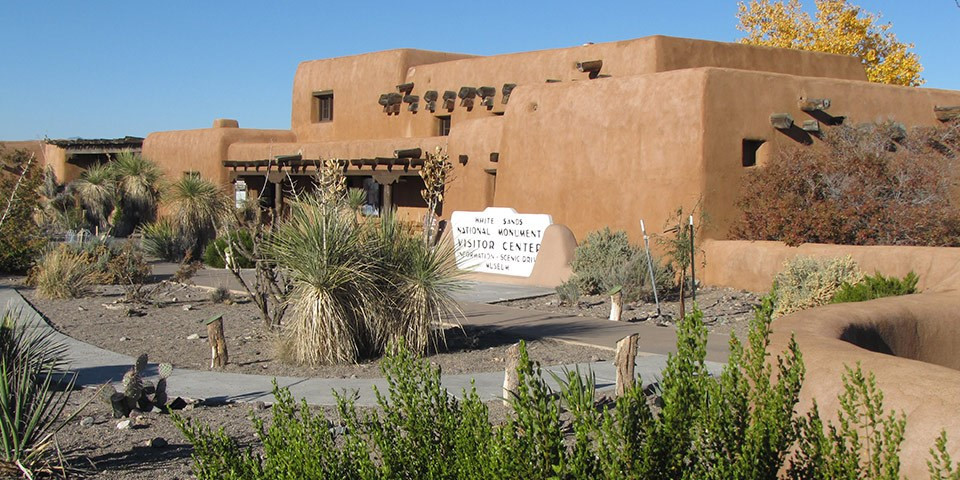 White Sands National Park visitor center and native plant garden, New Mexico, United States